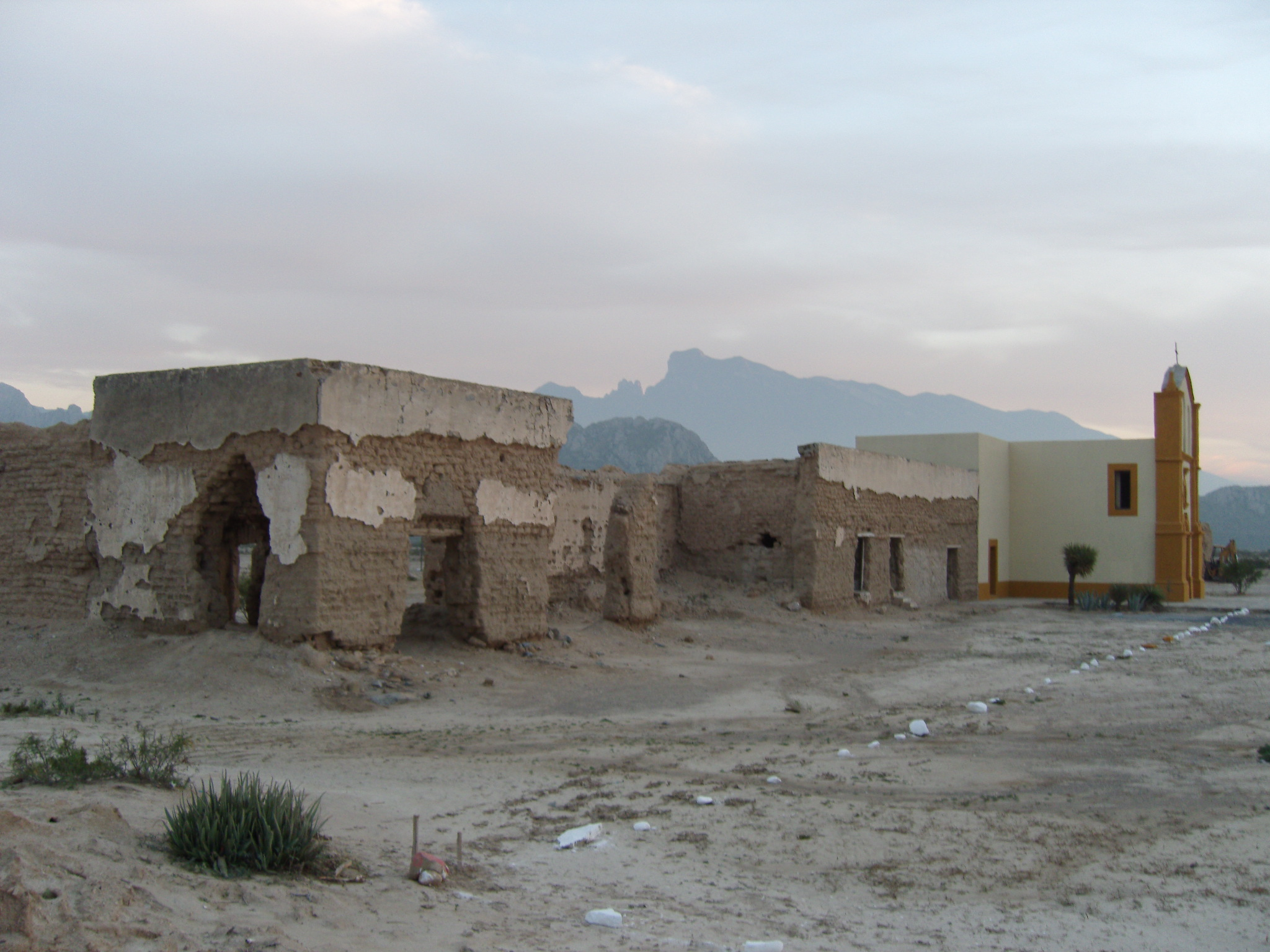 Historical hacienda located in Mina, Nuevo Leon, Mexico